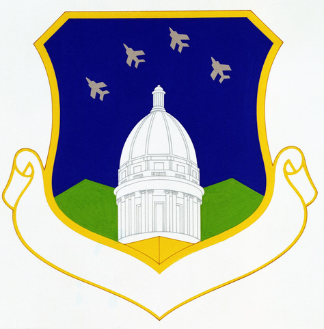 Kentucky Air National Guard - Emblem